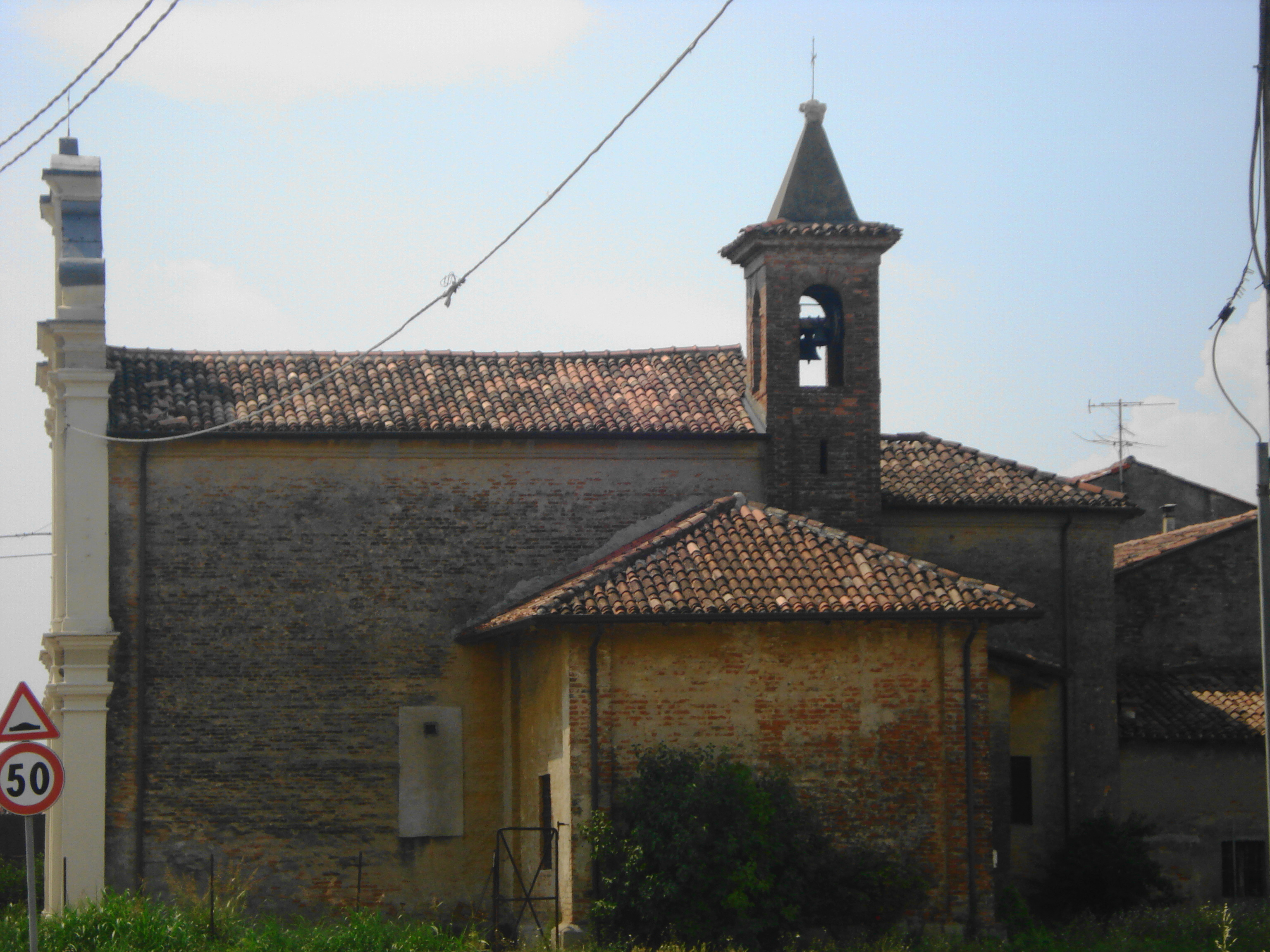 The church of Solaro